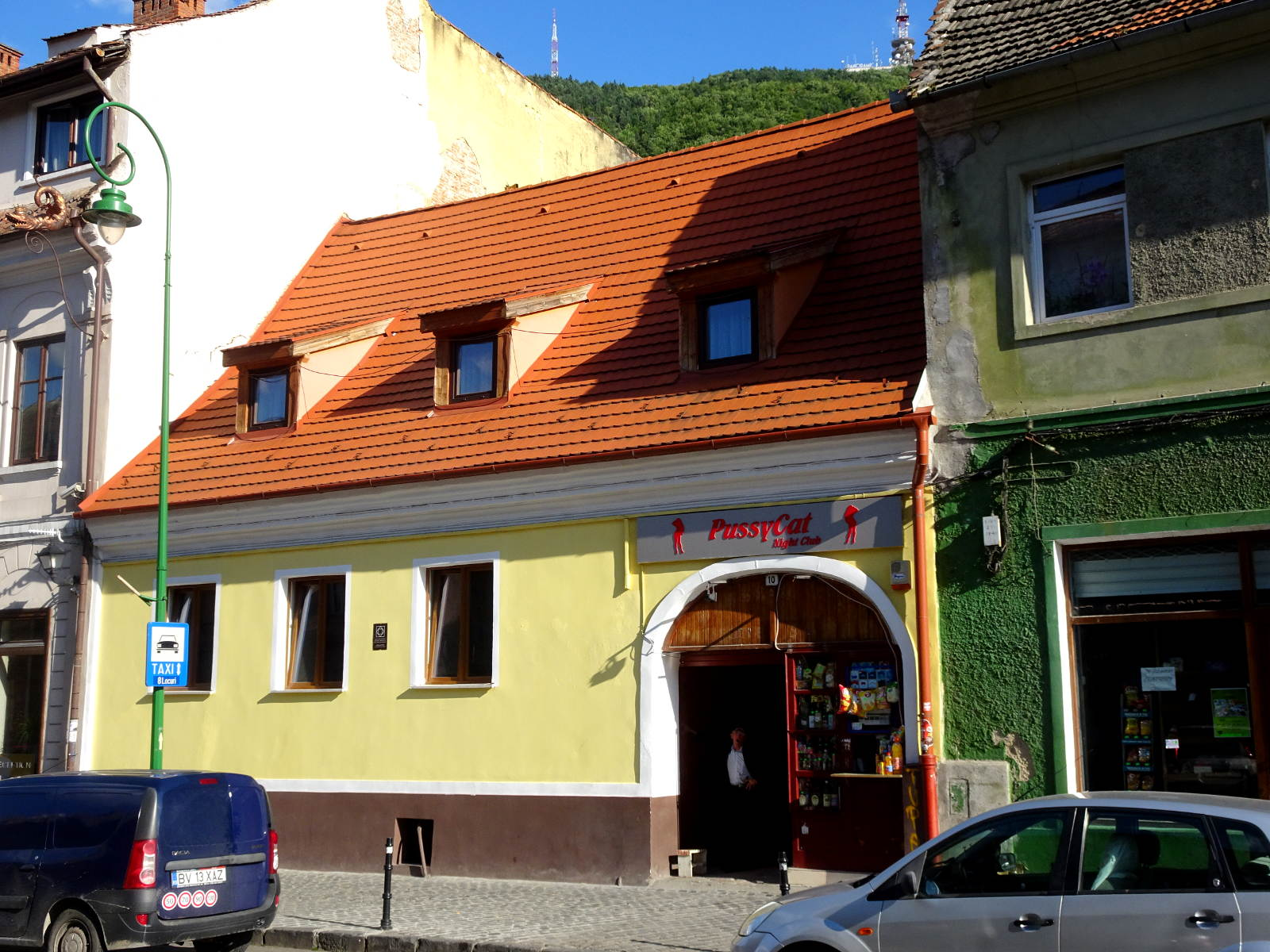 House in Bălcescu street, Brașov